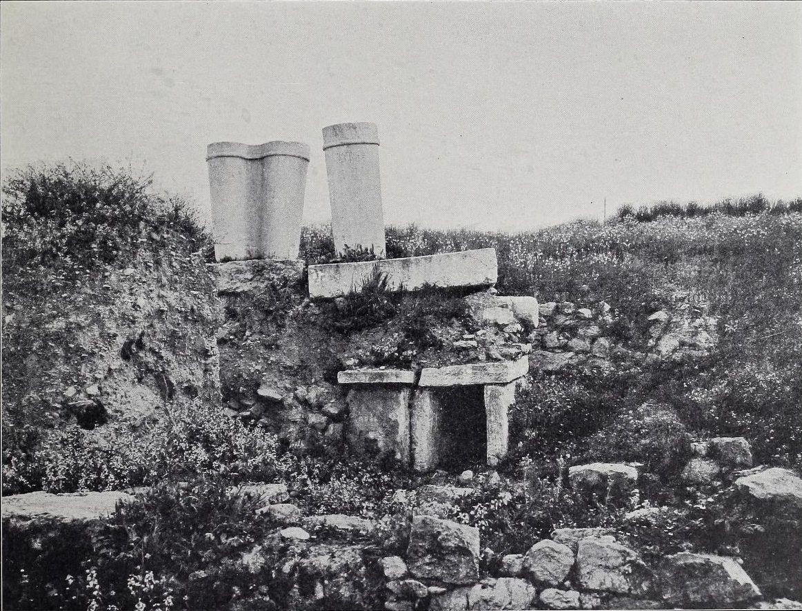 Graveyard of Isidoros, his wife Zosime and their son Philon at the Kerameikos cemetary in Athens; picture probably taken at the Excavations of the Kyriakos Mylonas in 1890 by a member of the Alinari family (the last photographing member of the Fratelli Alinari studio, Vittorio Alinari, died in 1932).